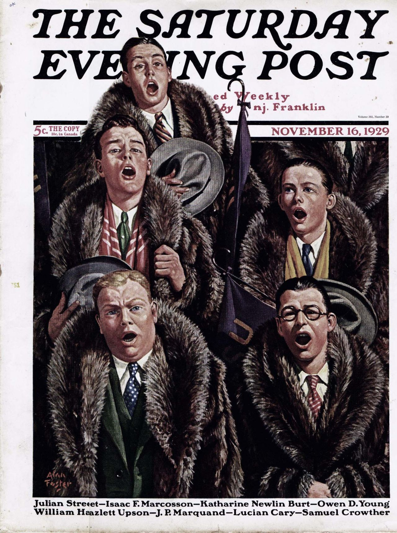 Men wearing raccoon coats, a fad of the time